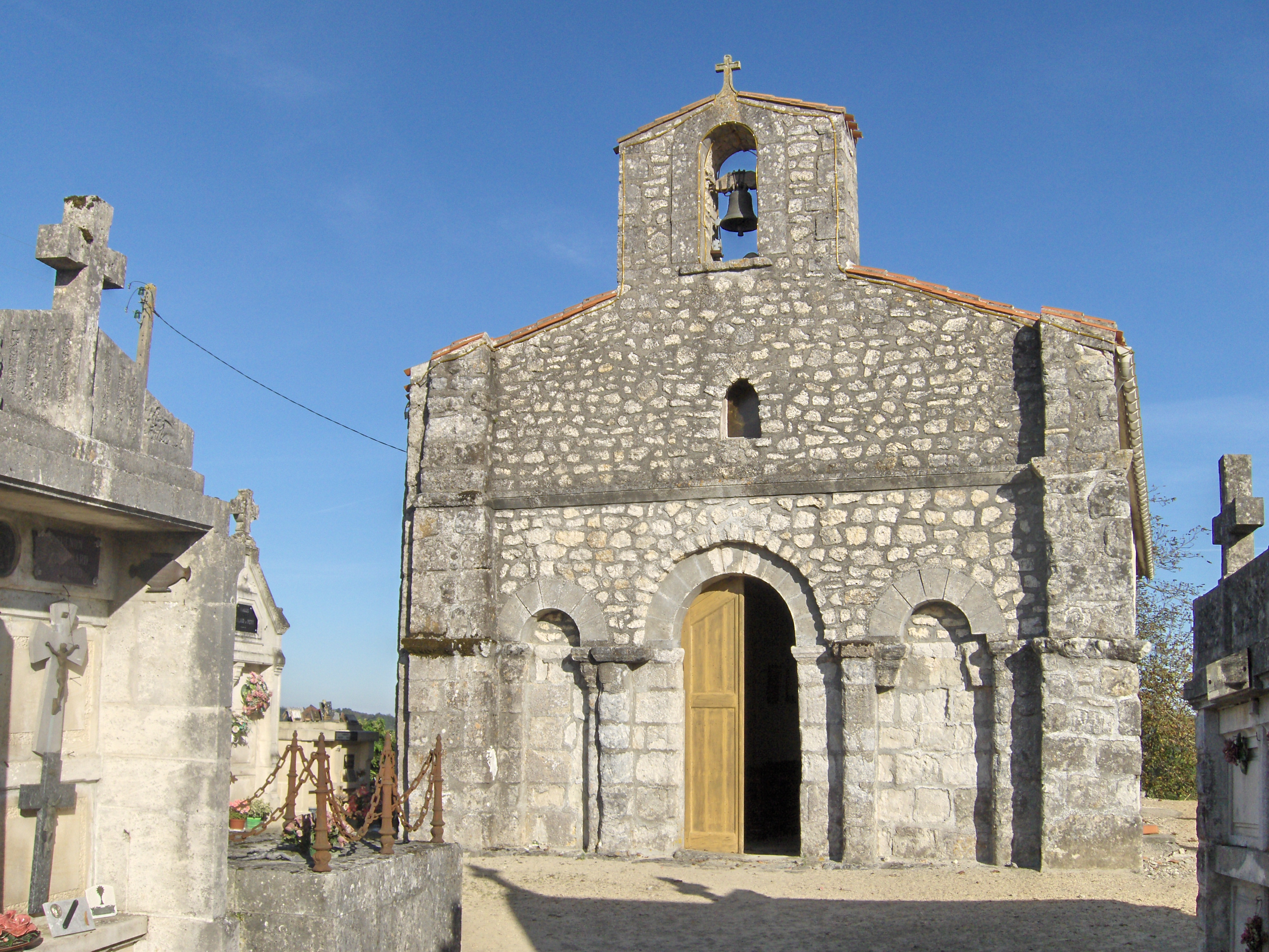 Church of Oriolles - Charente - France - Europa